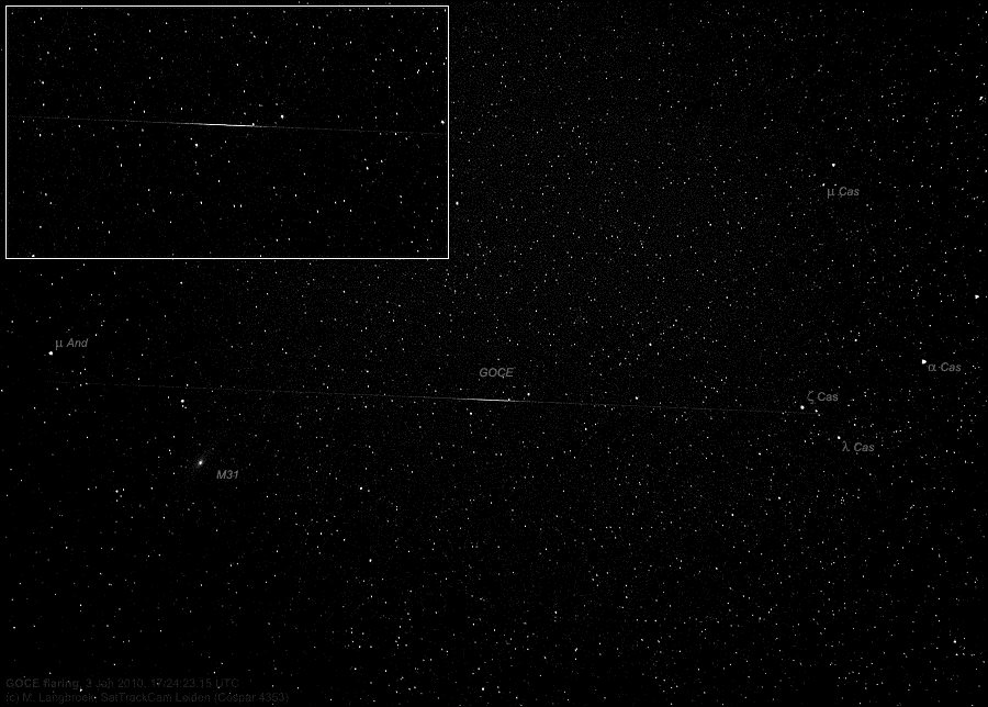 GOCE (09-013A) flaring briefly to magnitude +2 on this image as the 67.5 degree solar panel briefly mirrors sunlight to the observer. This photograph was taken by Marco Langbroek (Leiden, the Netherlands), the flaring occurred at 17:24:23.15 UTC (Jan 3, 2010).